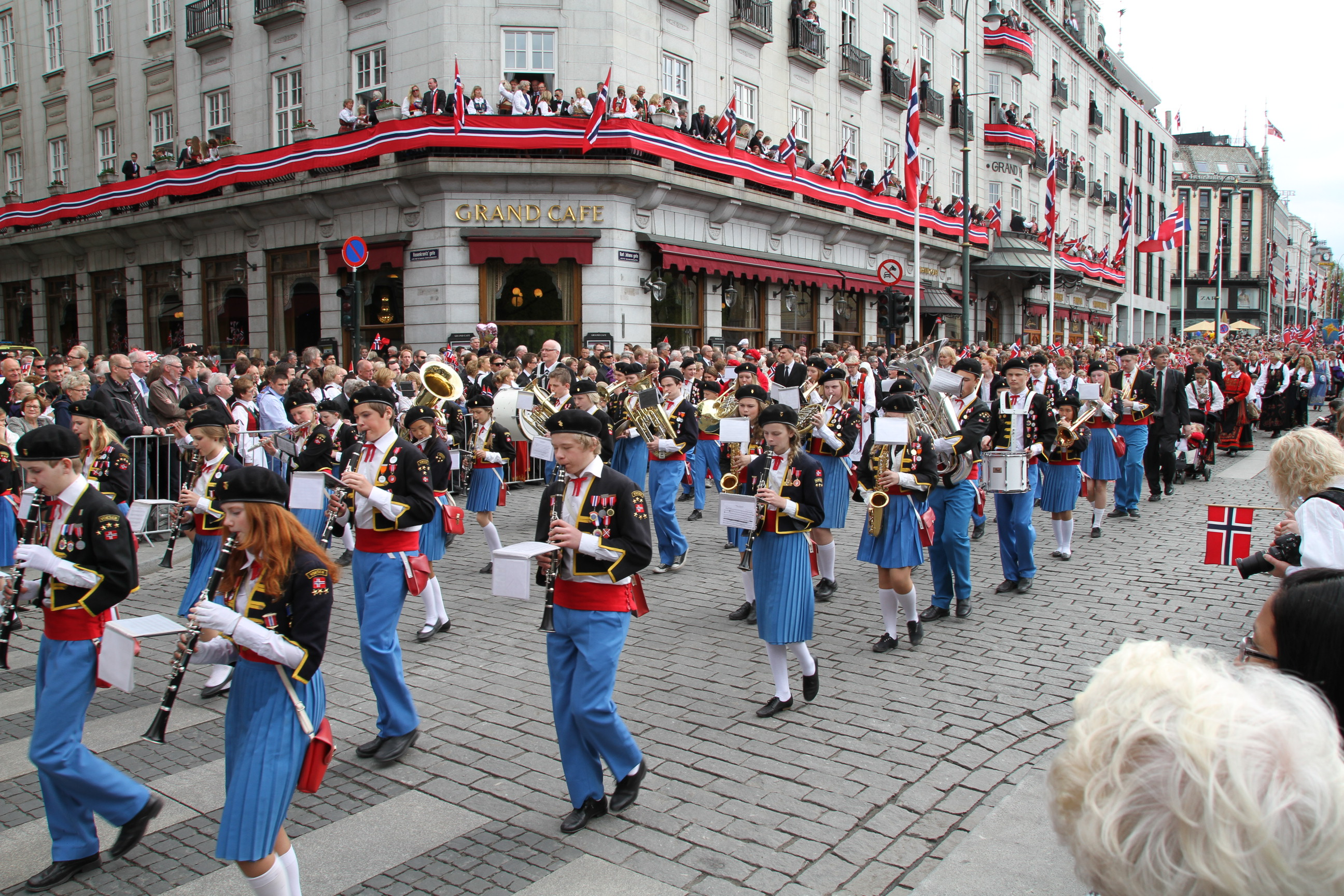 Voksen skoles musikkorps, a primary school music ensemble established 1958, belonging to Vopksen School (Voksen skole), Oslo - Norway.